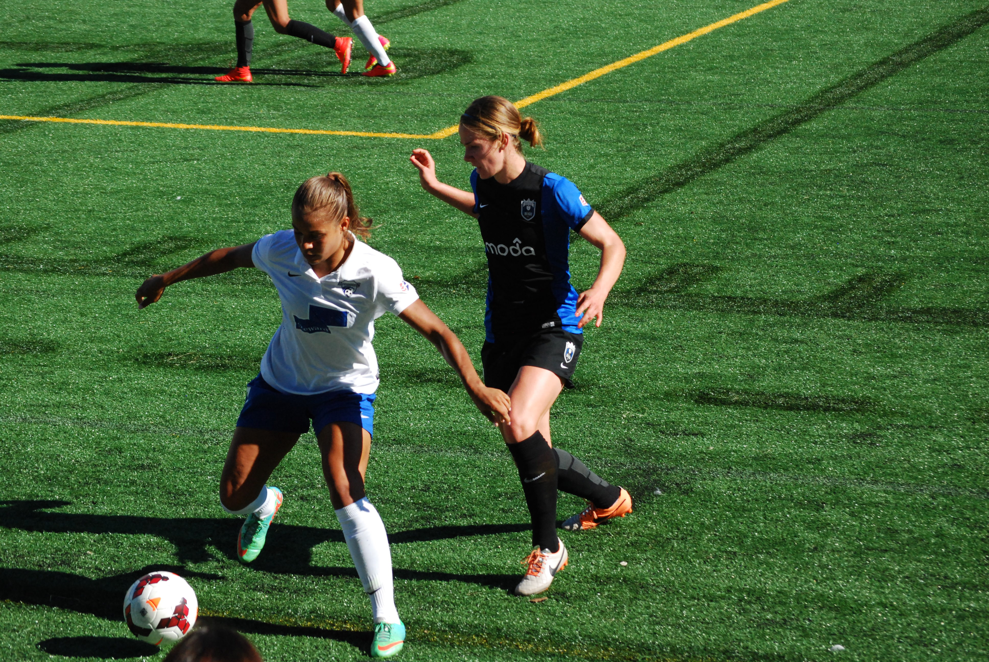 Seattle Reign FC vs Boston Breakers Memorial Stadium, Seattle Center Seattle, WA July 6, 2014